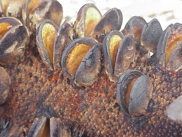 Species: Banksia serrata Family: Proteaceae Image No. 3